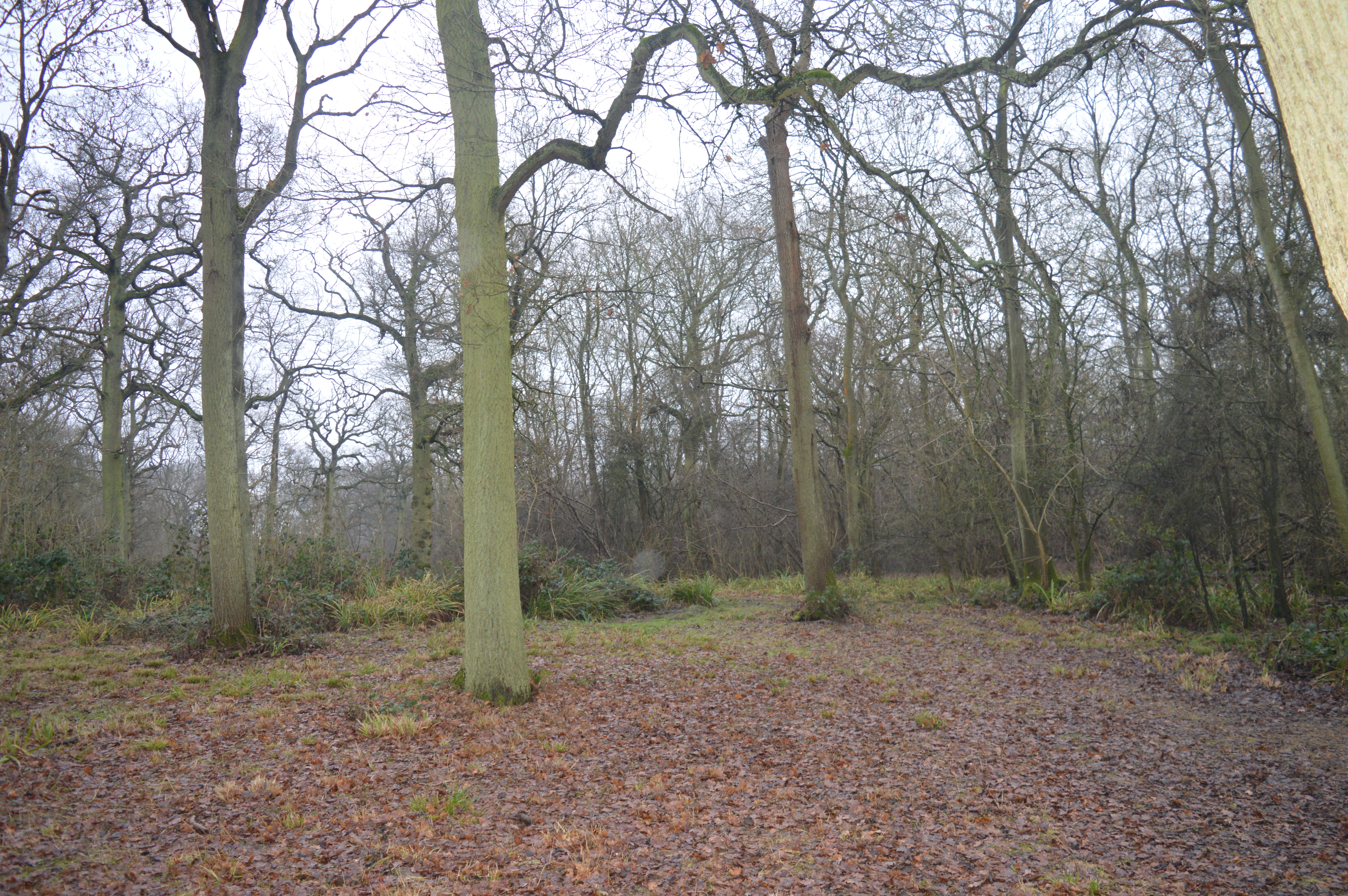 Perry West Wood is part of Perry Woods, a biological Site of Special Scientific Interest north of Great Staughton in Cambridgeshire.